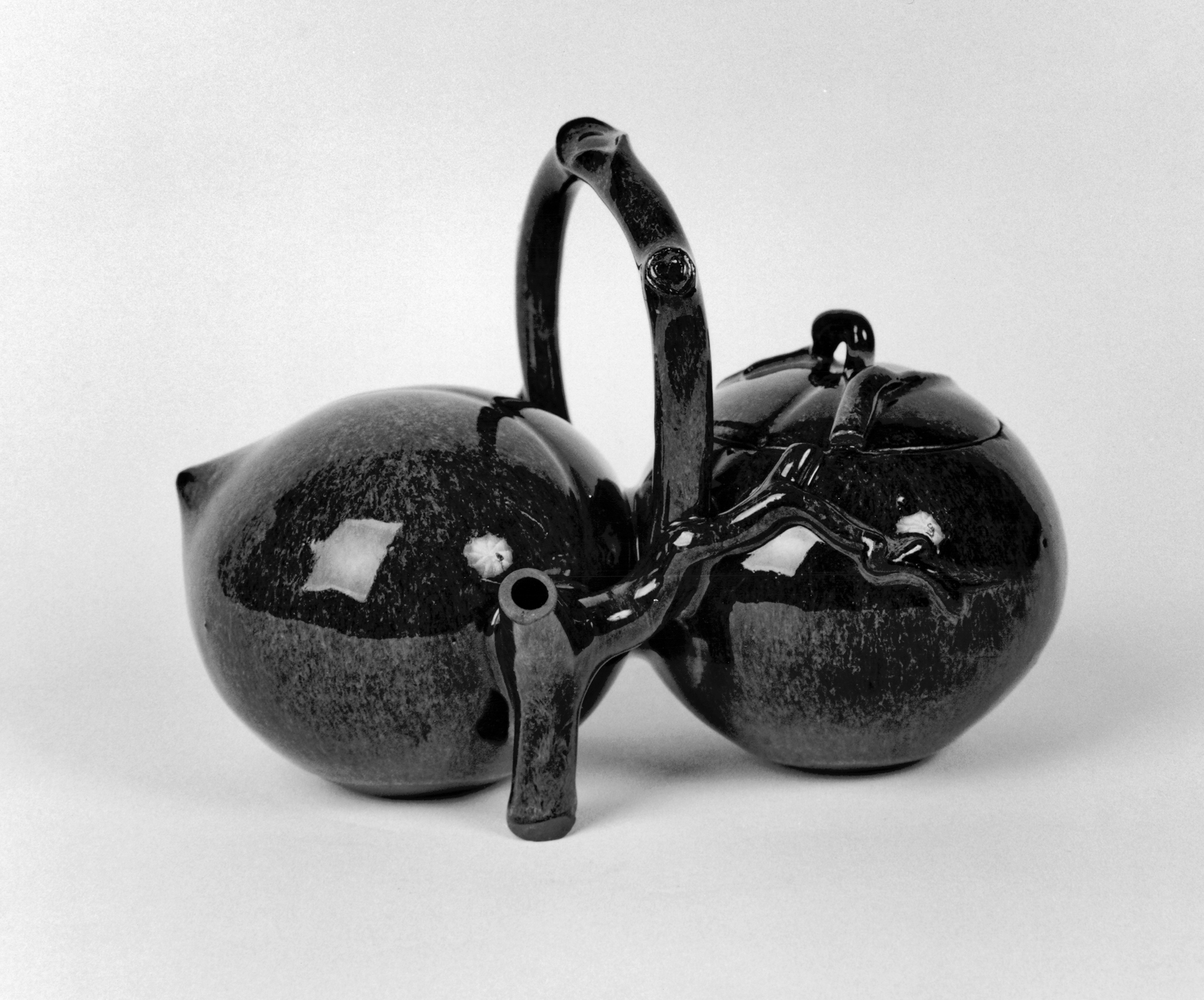 This teapot is an example of Yixing [I-hsing] ware and is glazed with a blue-brown transmutation. Peaches of immortality, which ripen only once in a thousand years, grow in the garden of the queen mother of the West, according to Taoist cosmology. The peach stands for long life.